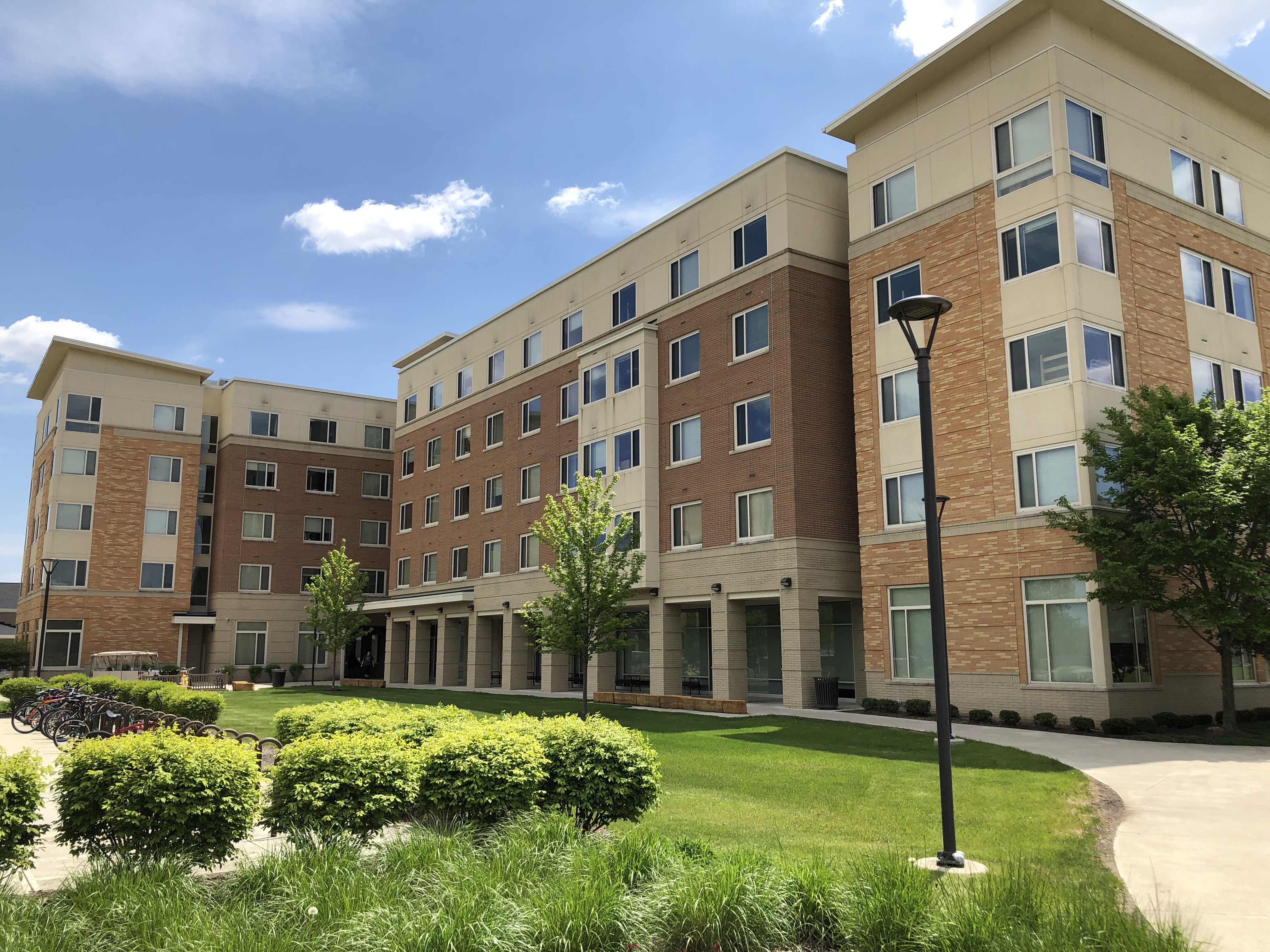 Centennial Hall at BGSU